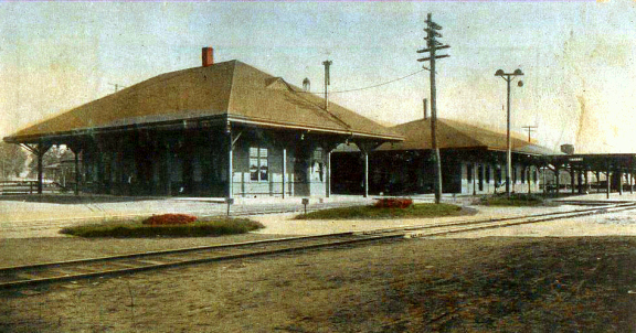 The two railroad stations at Ayer MA shown in a postcard view, dated 1910